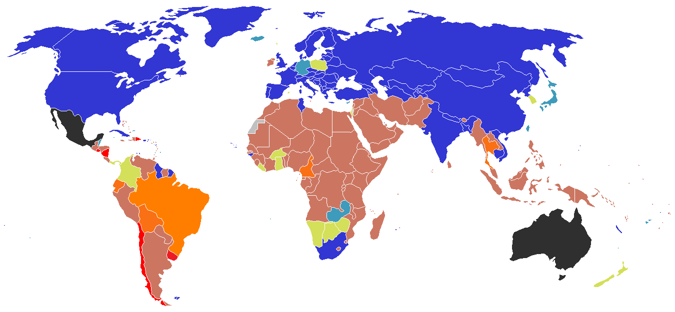 abortion law by country